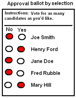 Approval ballot by two choices Originally uploaded as a GIF by Tomruen.